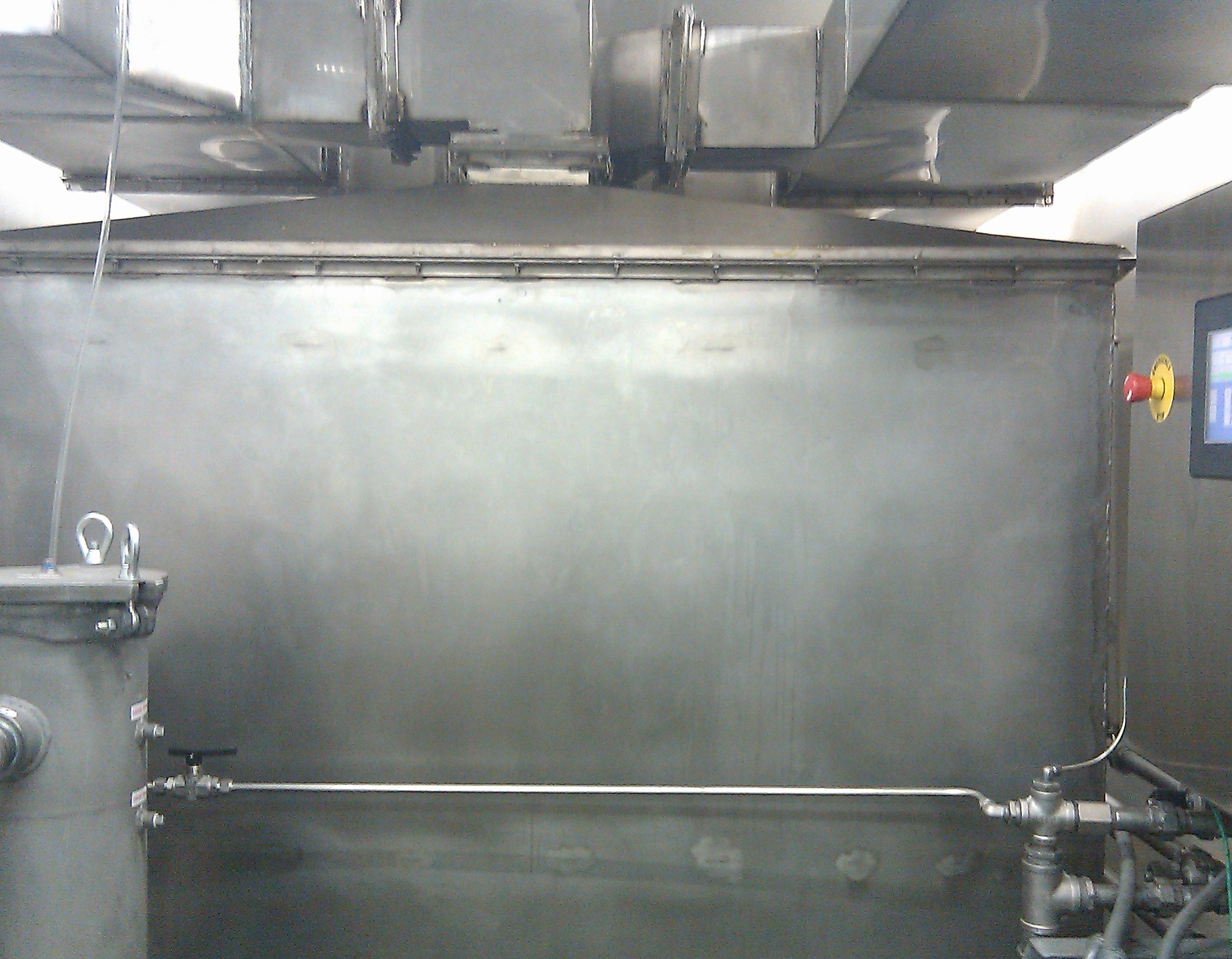 VOC and HAP Capture and Biological Conversion System